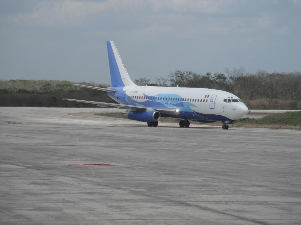 Global Air photo4